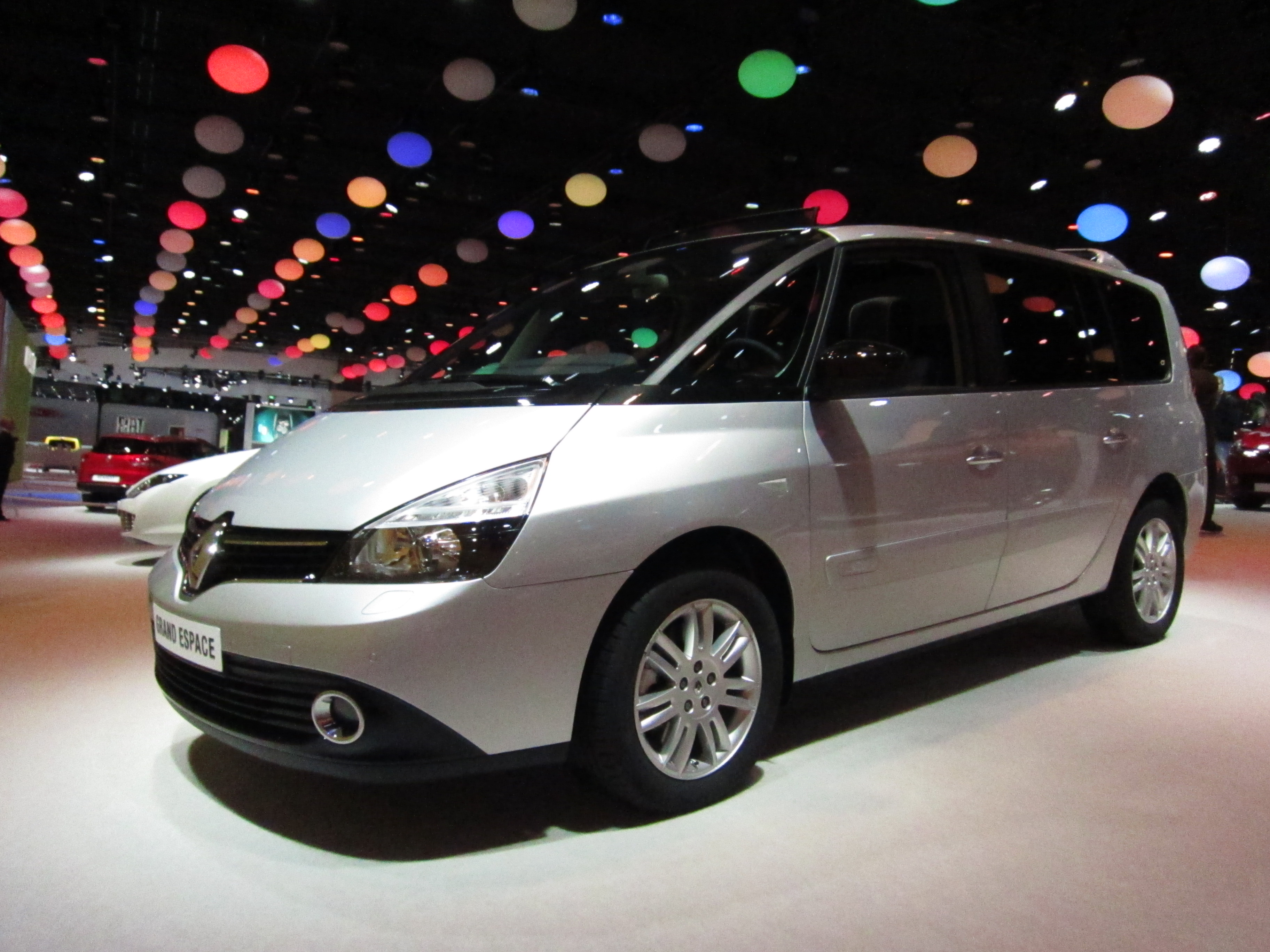 Renault Espace facelift at Mondial de l'Automobile Paris 2012